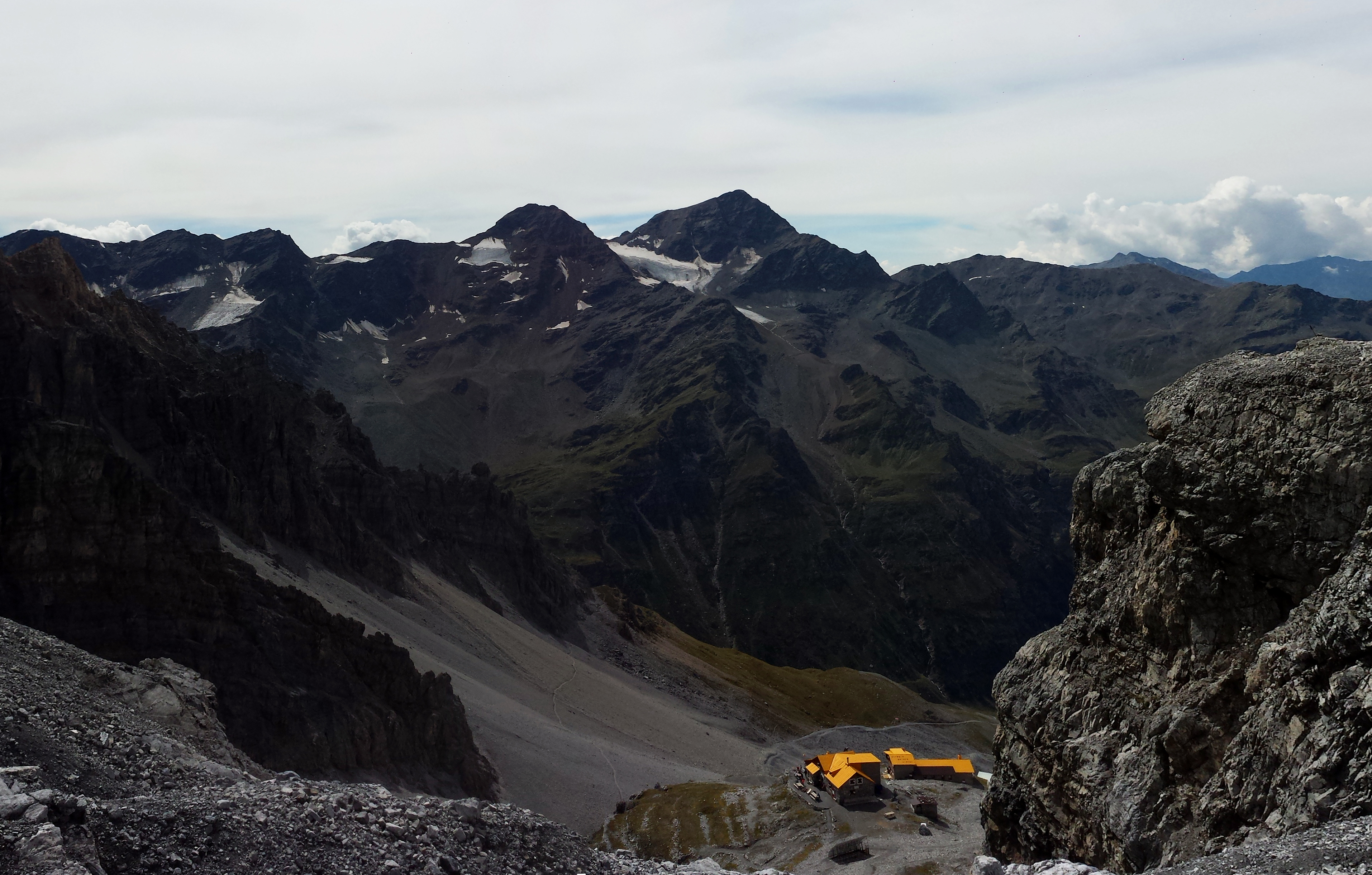 View of the mountain hut Quinto Alpini. In the background the Monte Confinale.